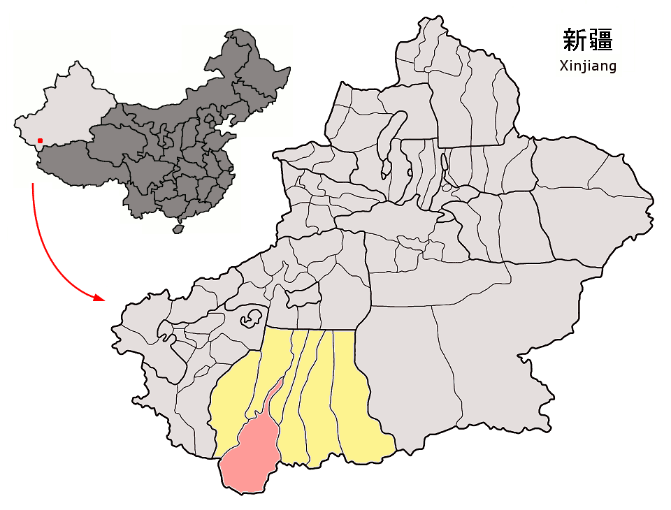 Location of Hotan County (pink) and Hotan Prefecture (yellow) within Xinjiang autonomous region of China Map drawn in september 2007 using various sources, mainly : Xinjiang Uygur autonomous region administrative regions GIS data: 1:1M, County level, 1990 Xinjiang Counties map from